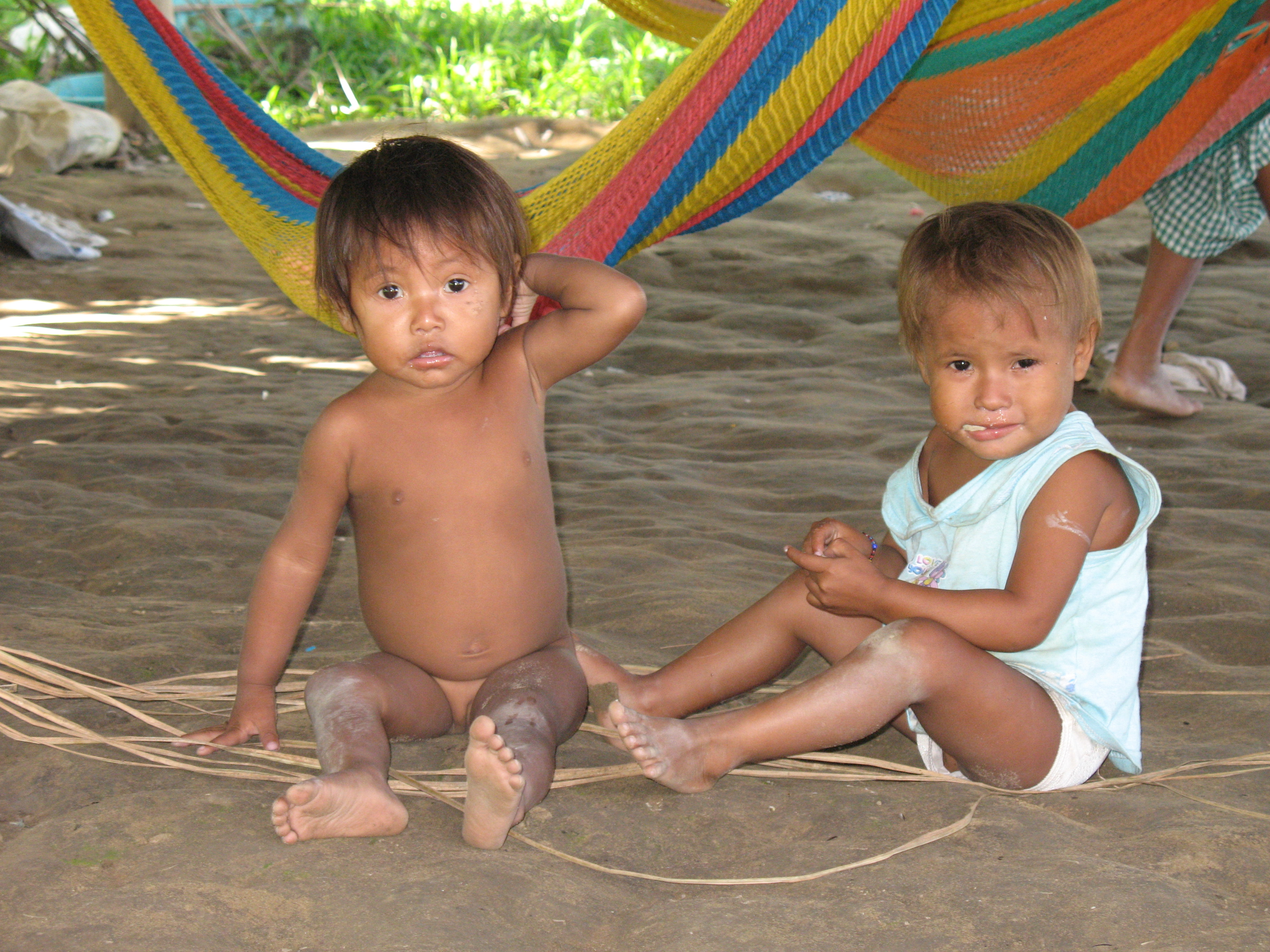 Warao people in Venezuela's Orinoco Delta region.